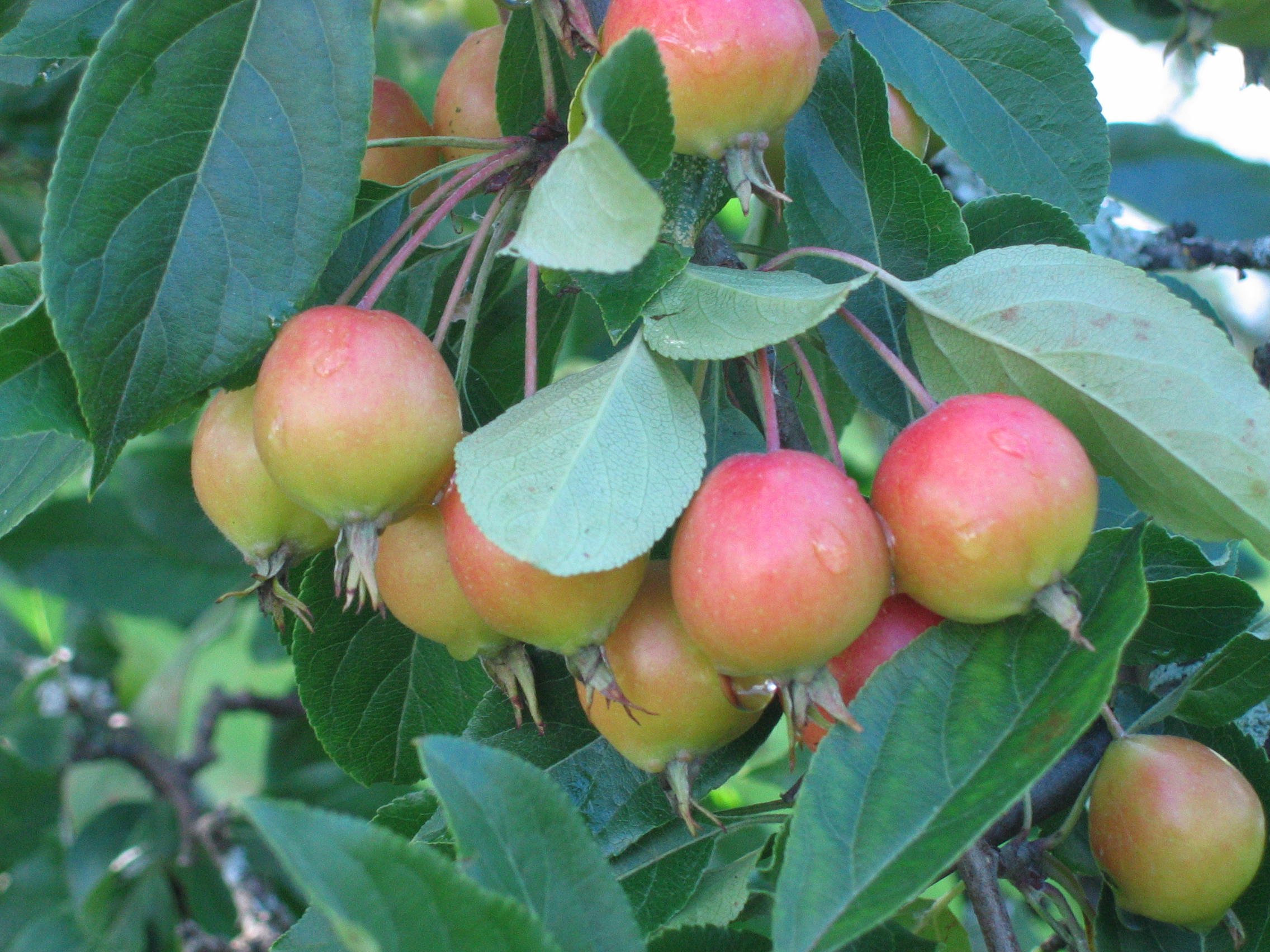 Small apples of an ornamental apple tree in a Finnish garden.